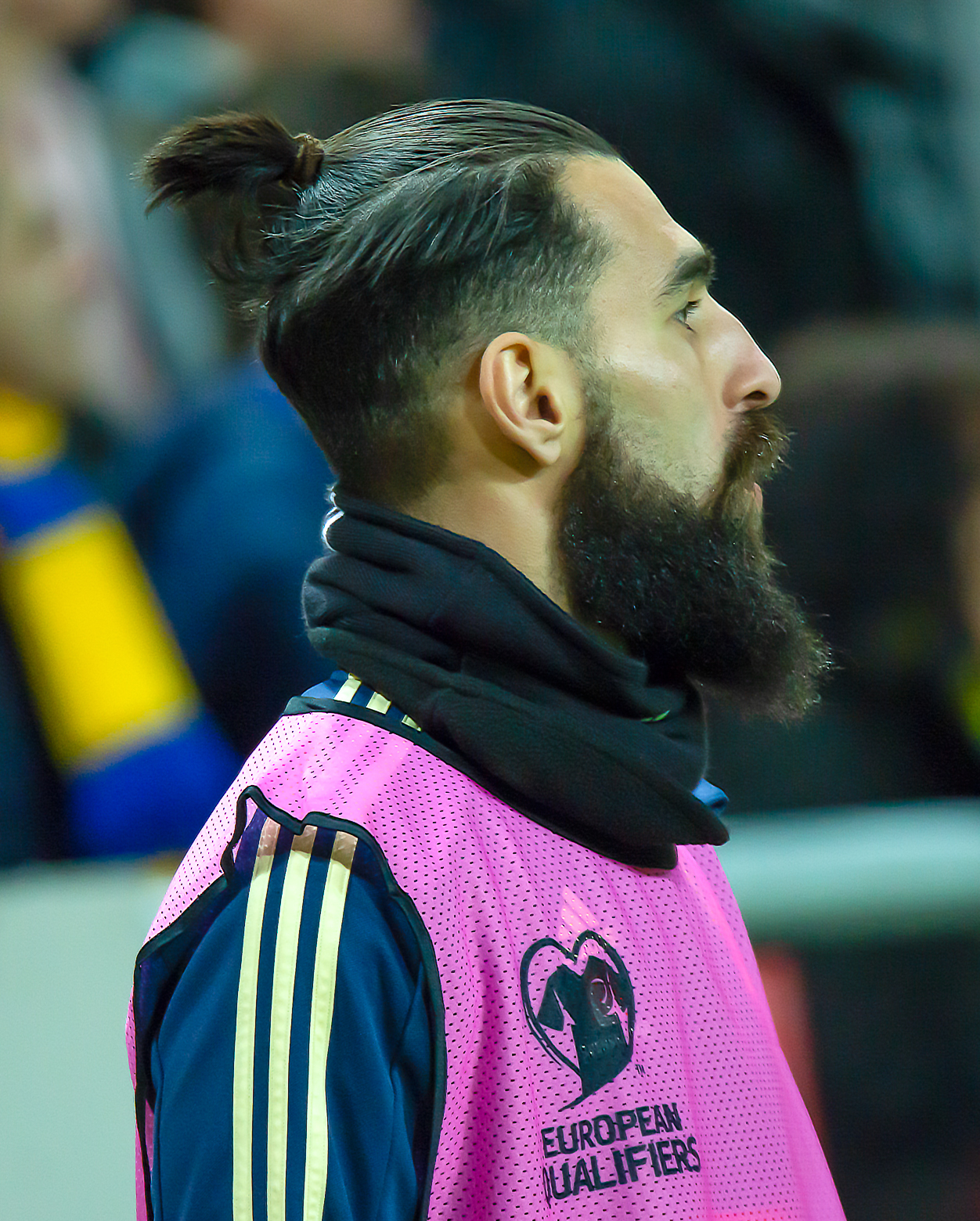 UEFA EURO qualifiers Sweden vs Romaina 20190323